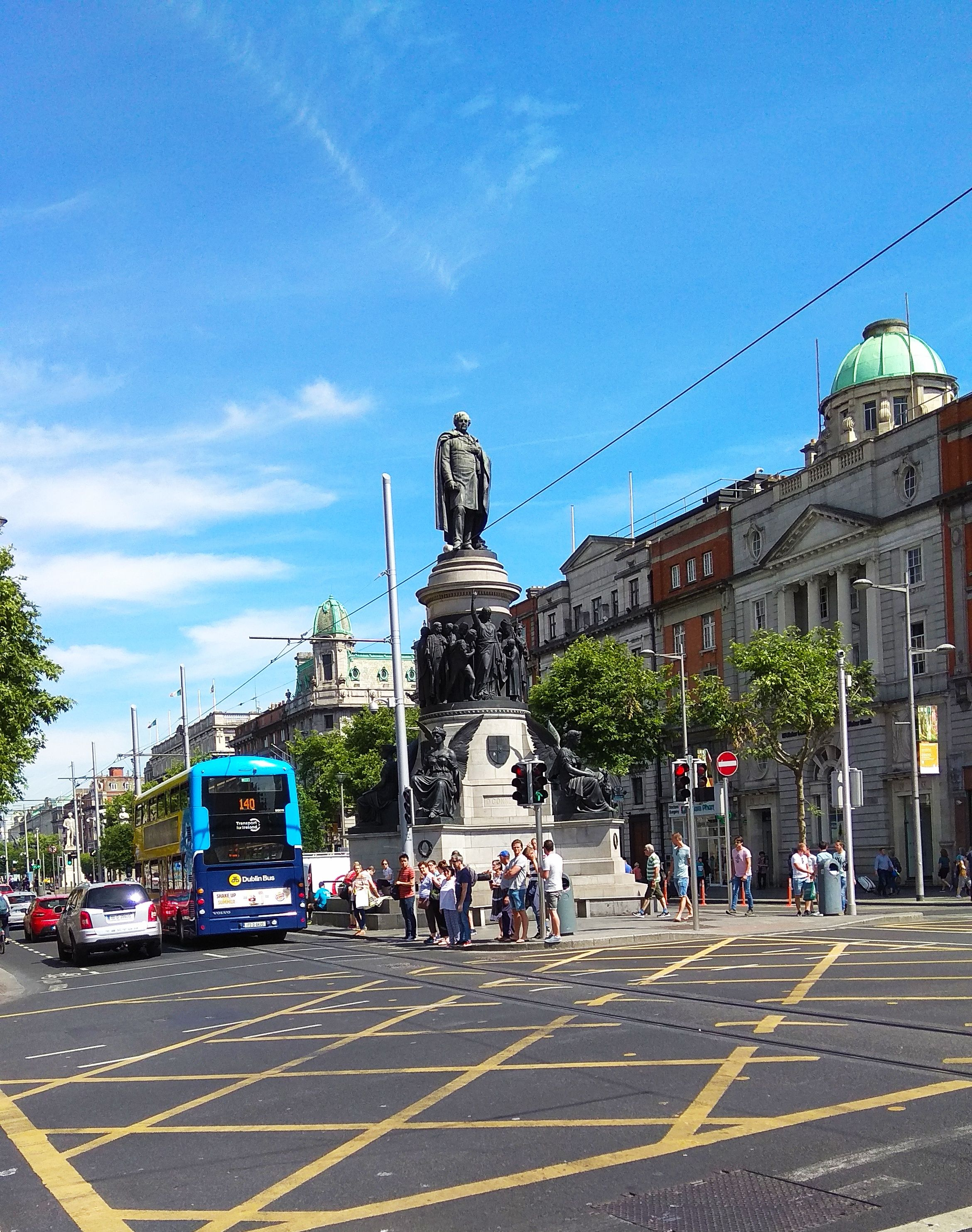 O'Connell Street, Dublin